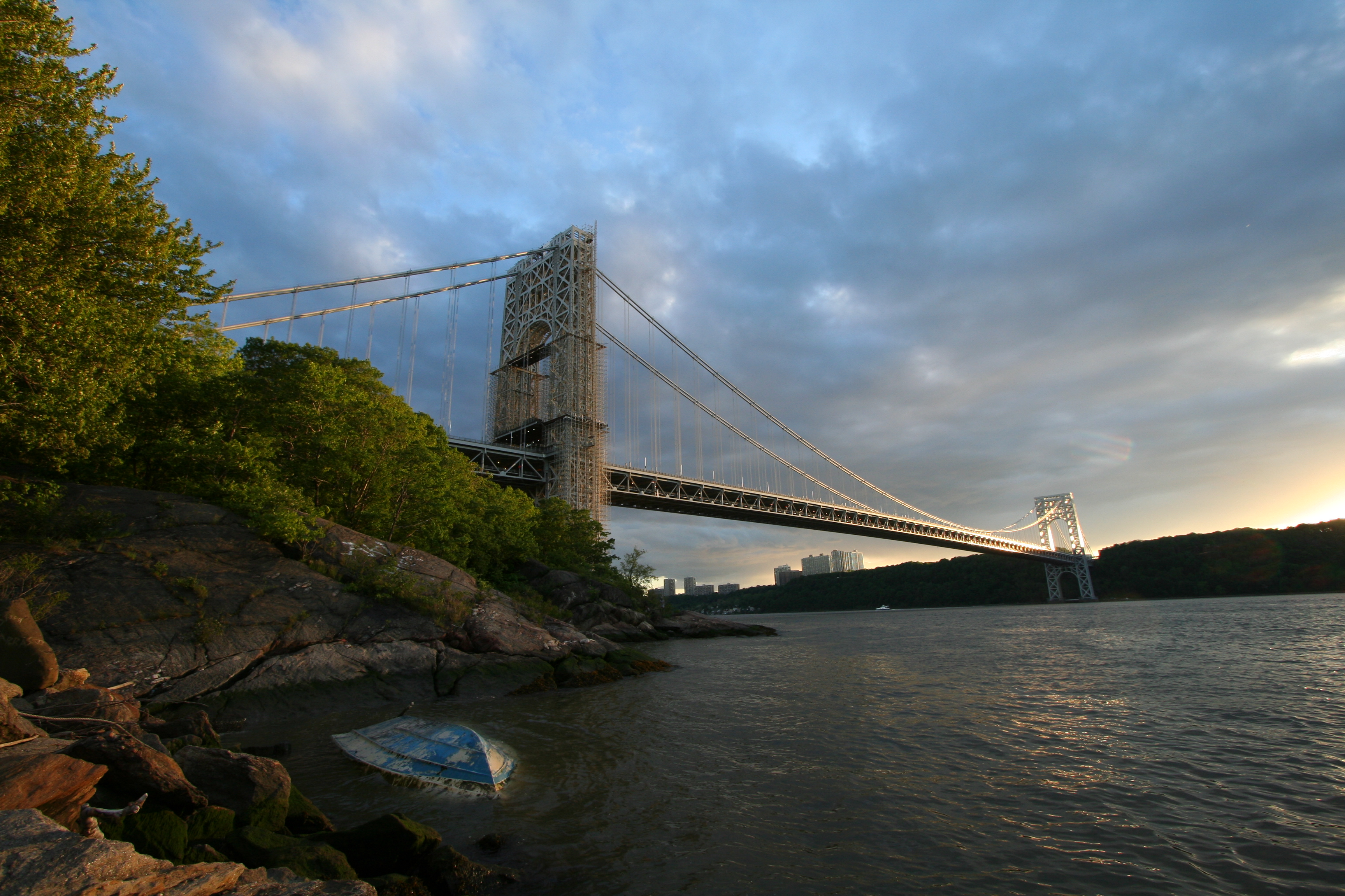 George Washington Bridge, New York City, NY, USA. From the NYC side. Photo by Jim Harper, May 20, 2006.